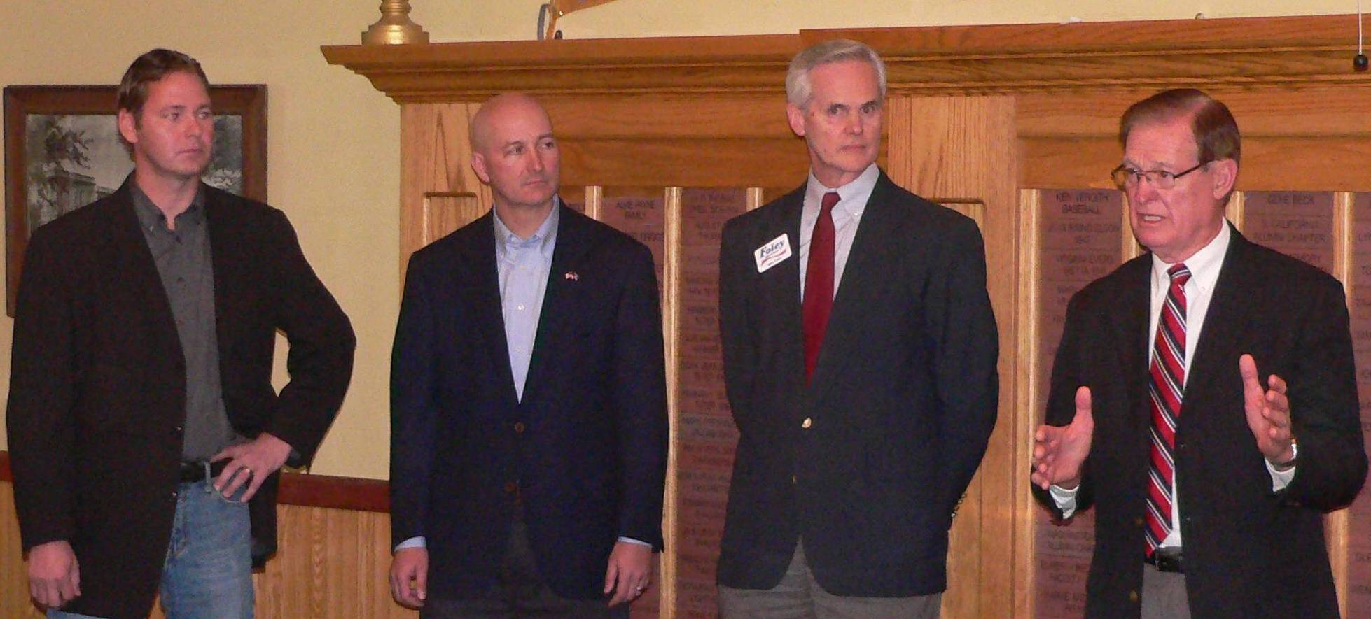 Buffalo County Republican Party candidate night, held in Kearney on the evening of November 4, 2013. Gubernatorial candidates: from left to right, Charlie Janssen, Pete Ricketts, Mike Foley, and Tom Carlson. Candidate Beau McCoy was not present at the event.